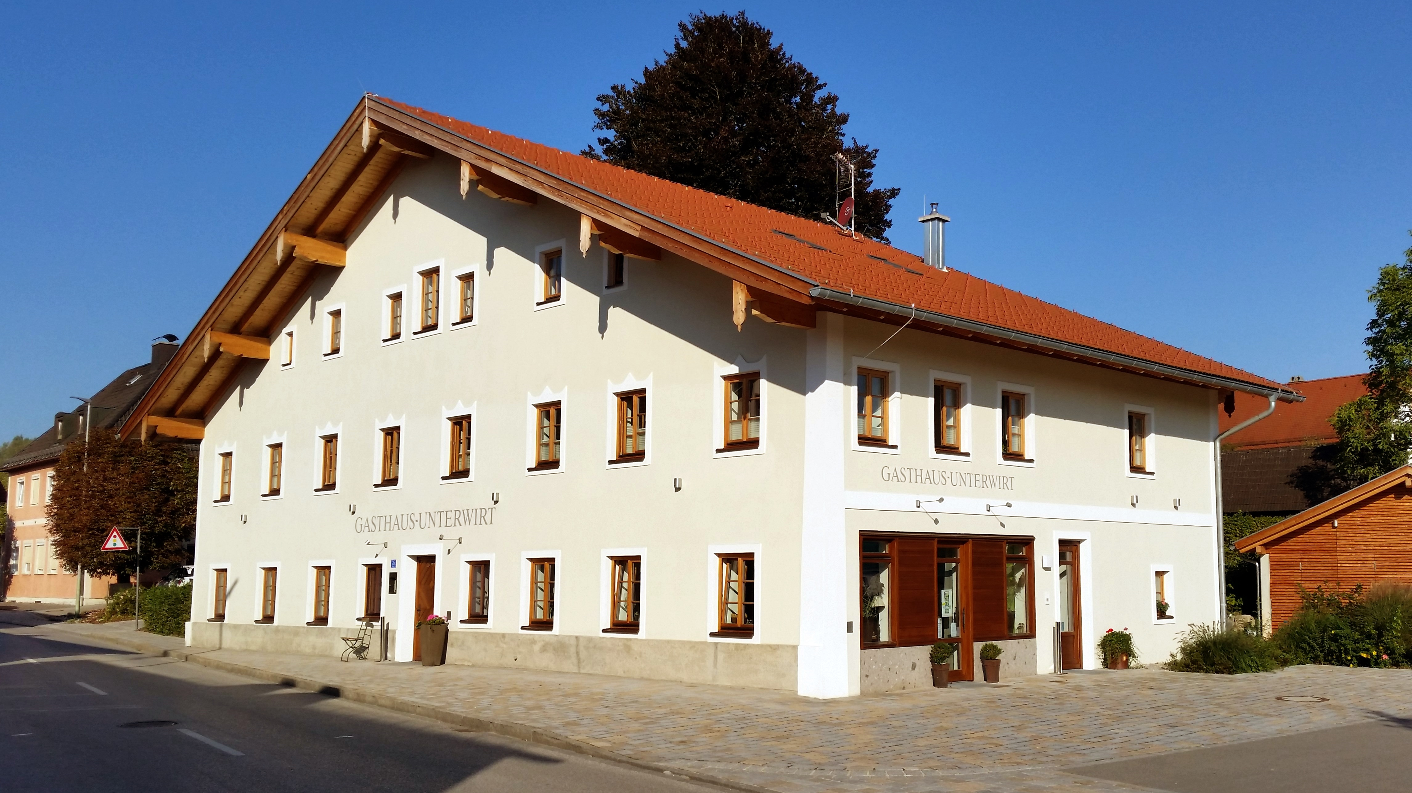 This is a photograph of an architectural monument.